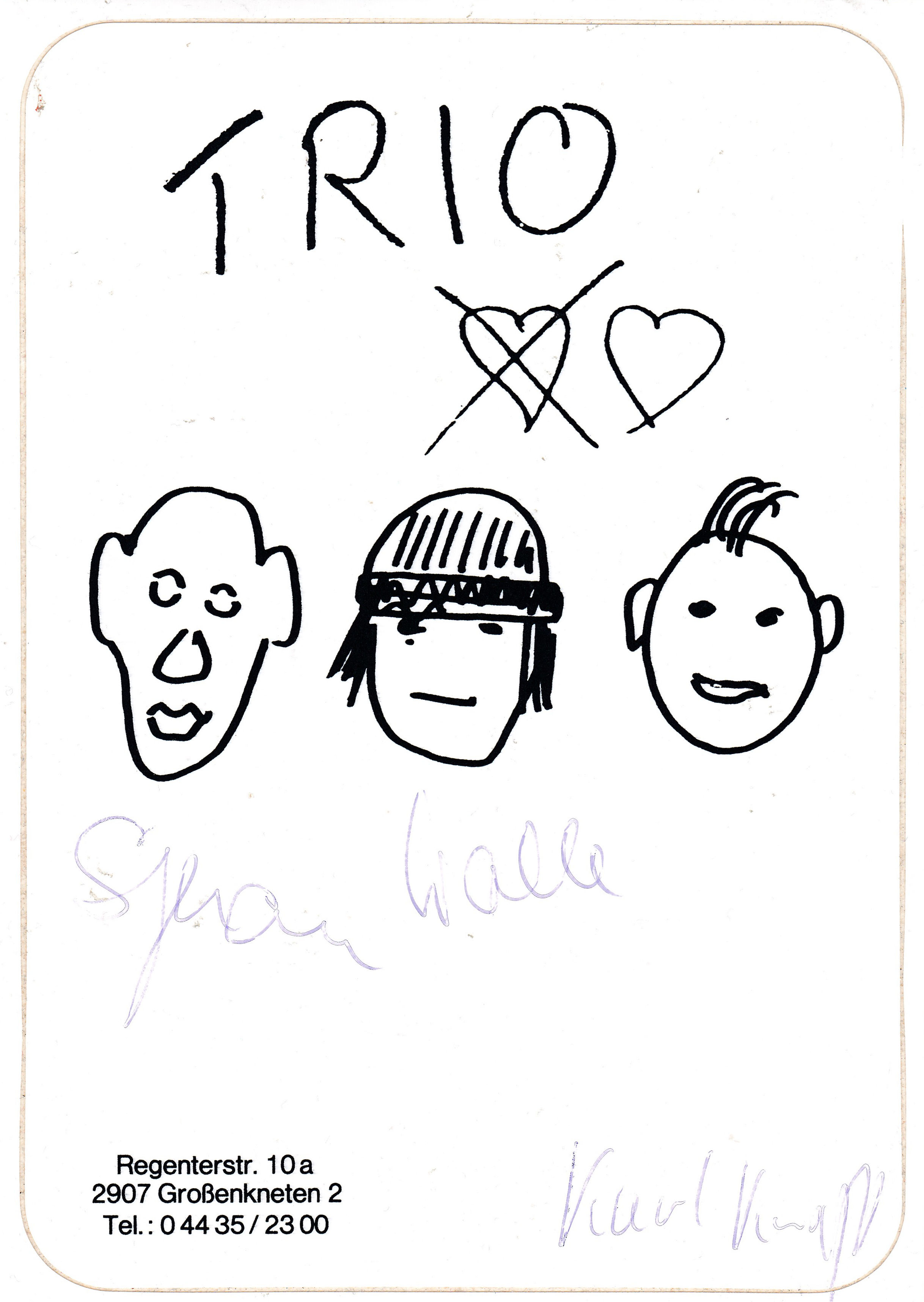 Signature of Trio.